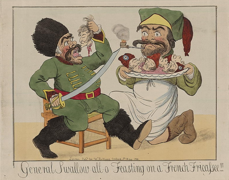 "General Swallow-all-o feasting on a French fricassee!!". Library of Congress description: "Print shows a gigantic Russian soldier, possibly a gross caricature of Field Marshal Aleksandr Vasil'evich Suvorov, eating the severed head of a French soldier, another oversized man, a chef, holds a platter containing several more heads; refers to the defeat of the French in Italy by Russian forces under the command of Suvorov."